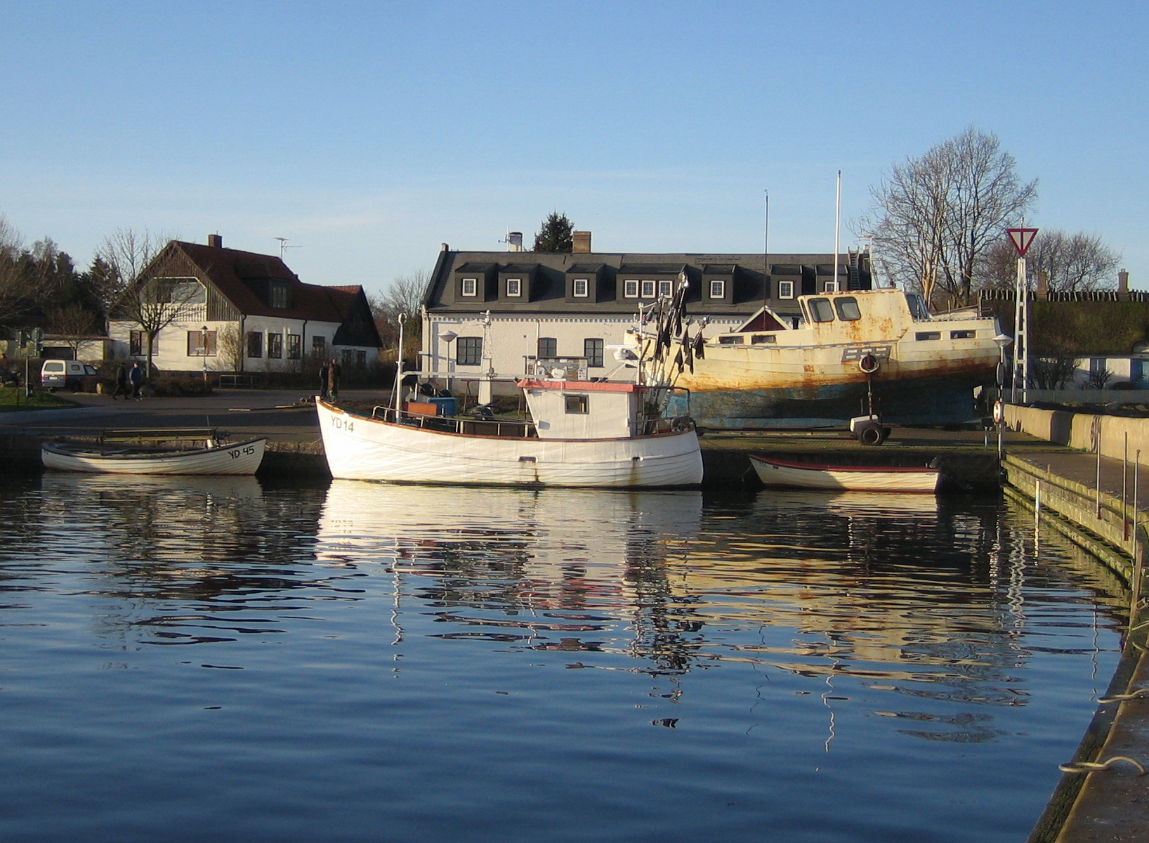 Abbekås harbour in Scania, Sweden.